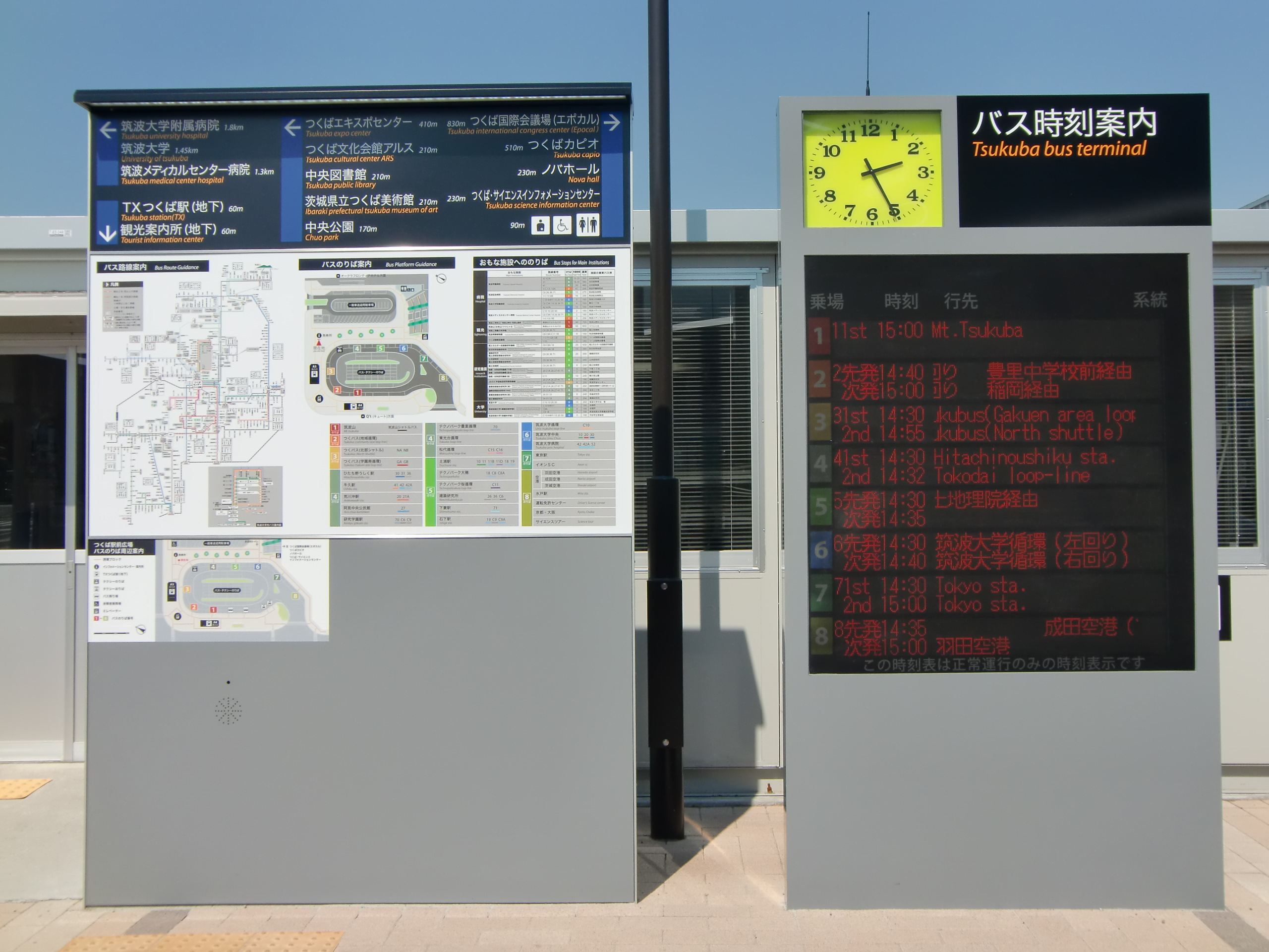 Information boards of Tsukuba Center.